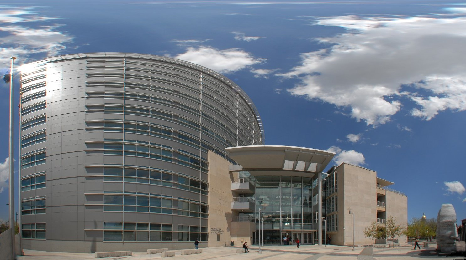 Wellington E. Webb Municipal Office Building, viewed from front plaza. Shot with a Nikon D200 and Sigma 8mm lense. Perspective corrected with hugin and image border touched up using gimp. © 2007 Patrick Charles